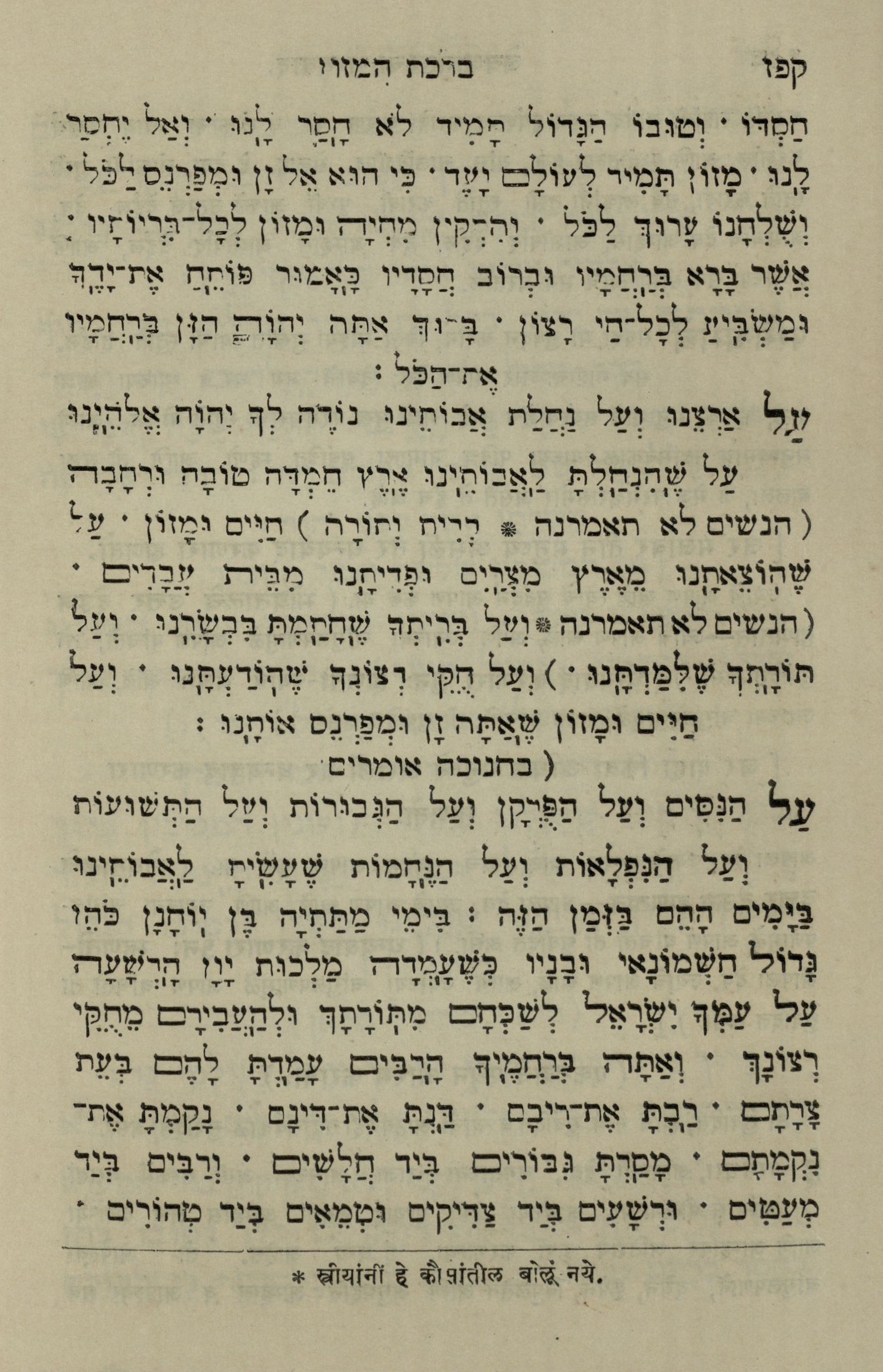 Jewish Prayer Book (Siddur) in Hebrew and Marathi , translated from Hebrew to Marathi in 1889 by Rajpurkar, Joseph Ezekiel